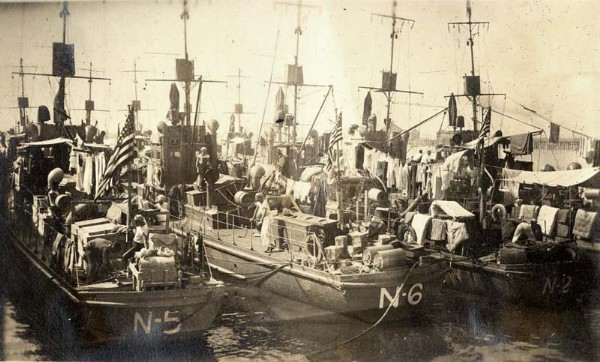 The United States Navy submarine chasers (left to right) (bearing identifcation marking "N-5"), (bearing identification marking "N-6"), and (bearing identification marking "N-2"). The three submarine chasers made up half of Division N of the Group in 1918 when this photograph was taken, and later (from 4 September 1918) made up the entirety of Group B of the Group.